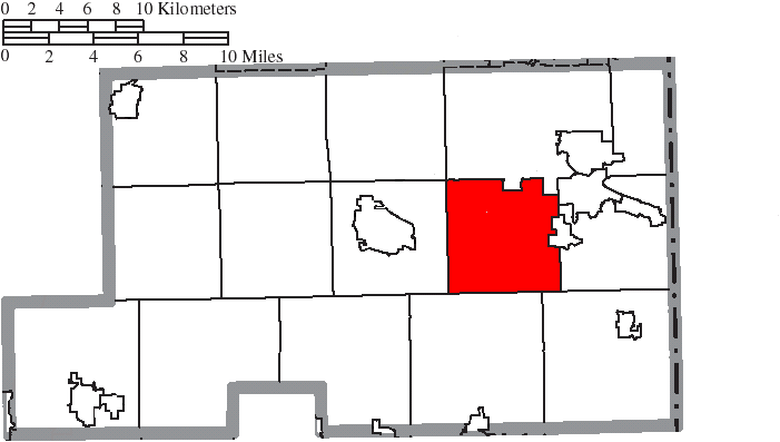 Map of the municipal and township boundaries of Mahoning County, Ohio, United States, as of the 2000 census, with the location of Boardman Township highlighted. Township borders are shown only in unincorporated areas in order to differentiate incorporated and unincorporated areas more clearly.